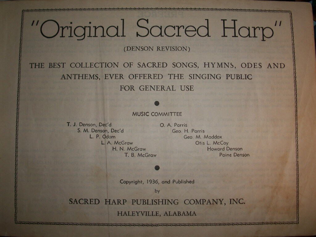 photo of Original Sacred Harp (Denson edition) songbook